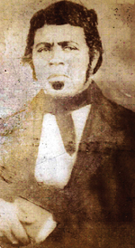 Paul Jennings (1799–1874), an American slave